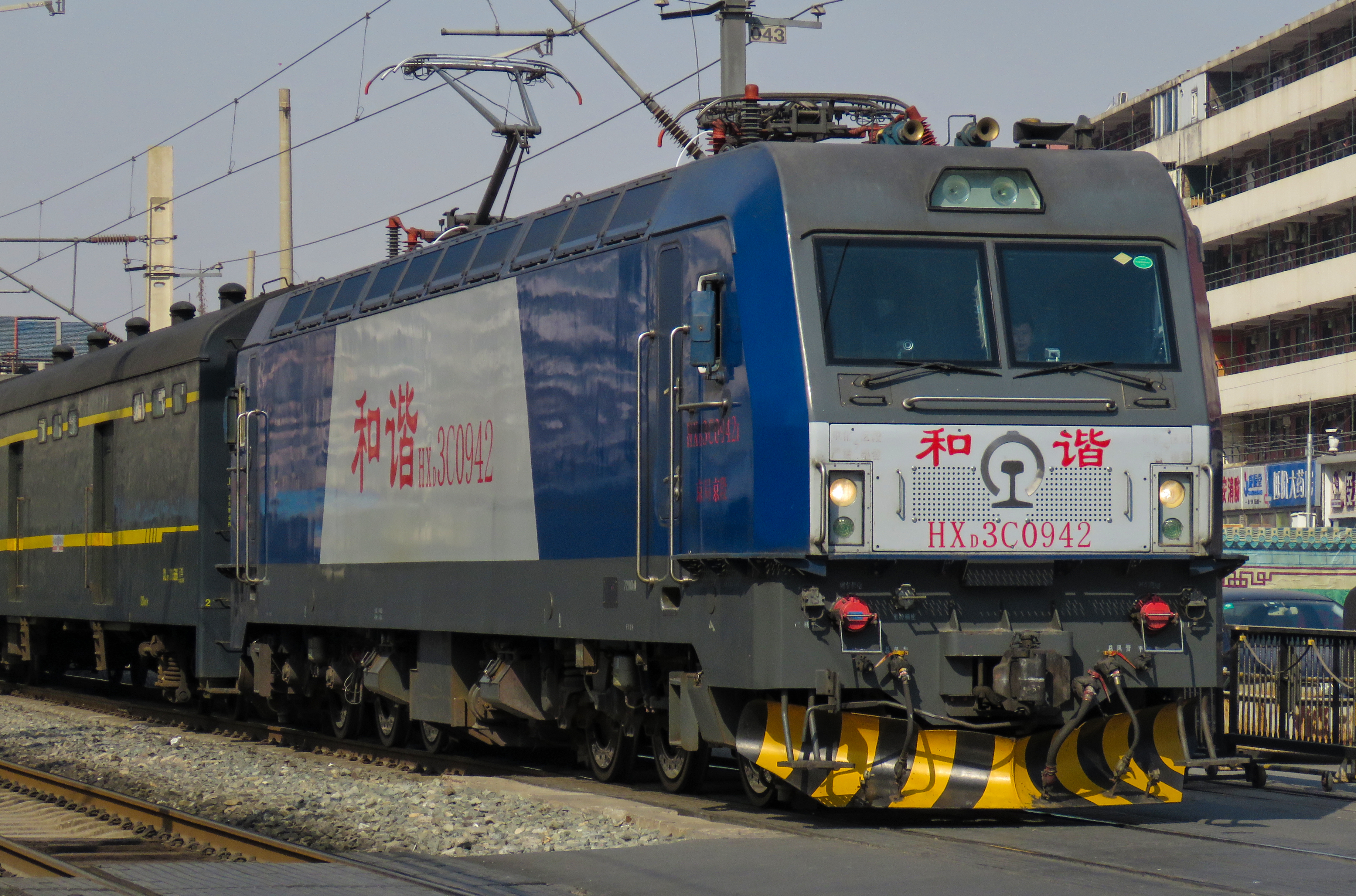 K1109 to Huangshan.